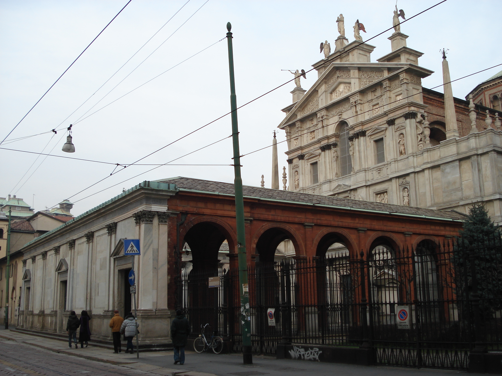 Santa Maria dei Miracoli church in Milan. Picture by Giovanni Dall'Orto, February 10 2007. In 1745. In 2007. In 2007.